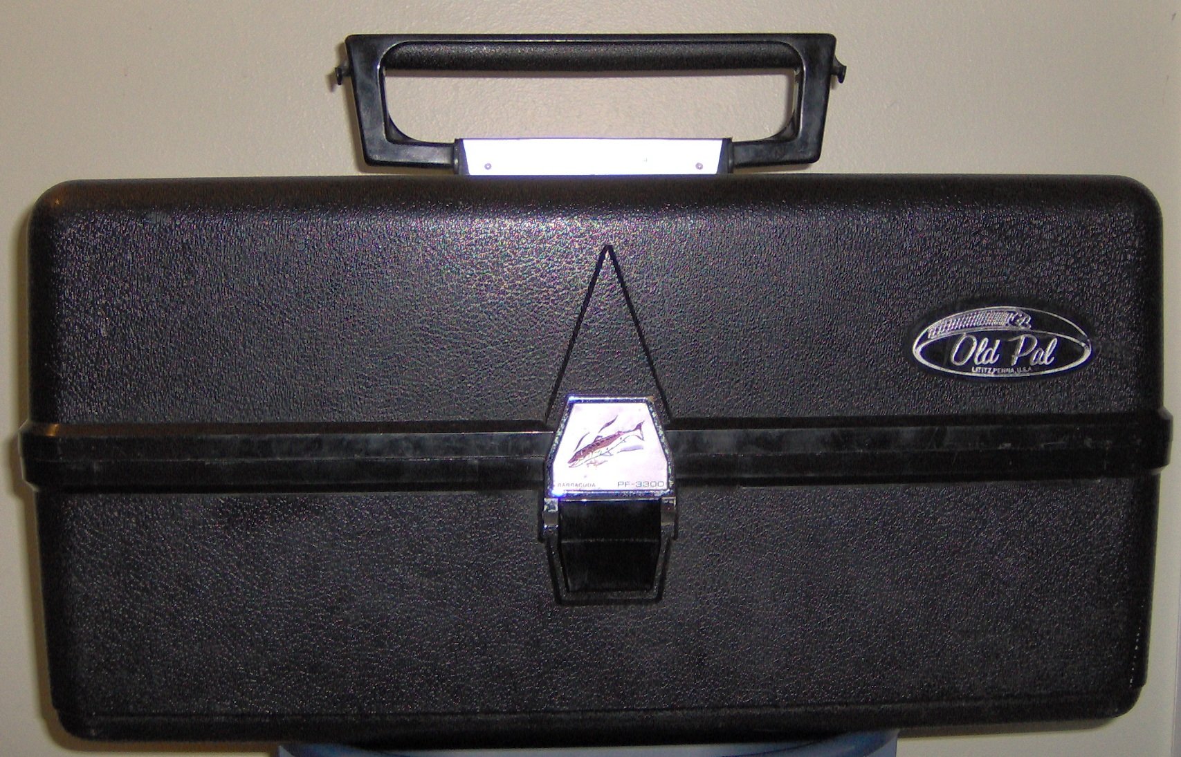 Old Pal Black Tackle Box PF-3300 Baracuda; featured on the American television series Emergency!, as the 'drug box', containing medication for use by the paramedics.